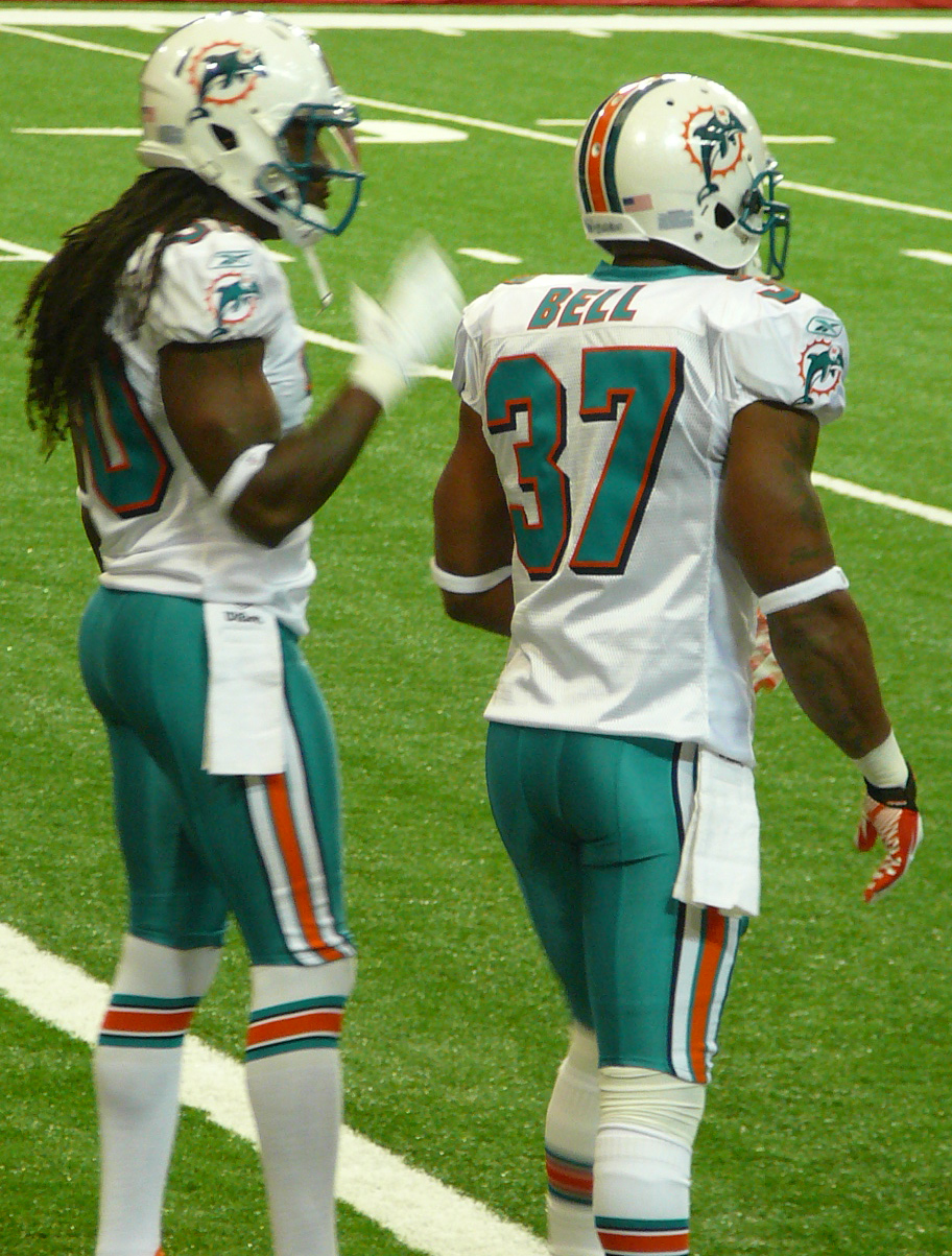 If used somewhere other than Wikipedia, Nelson, by name.